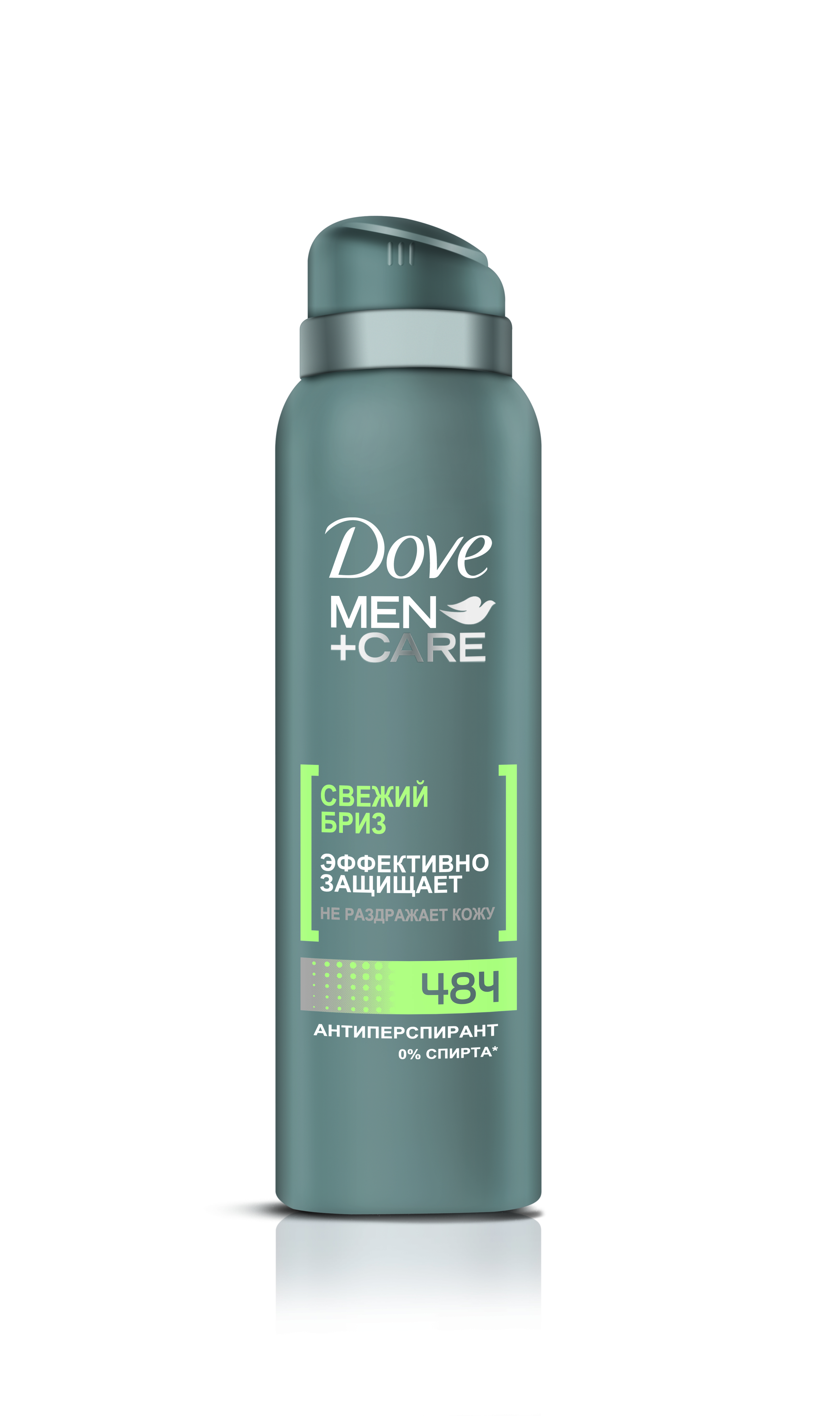 Dove man+care